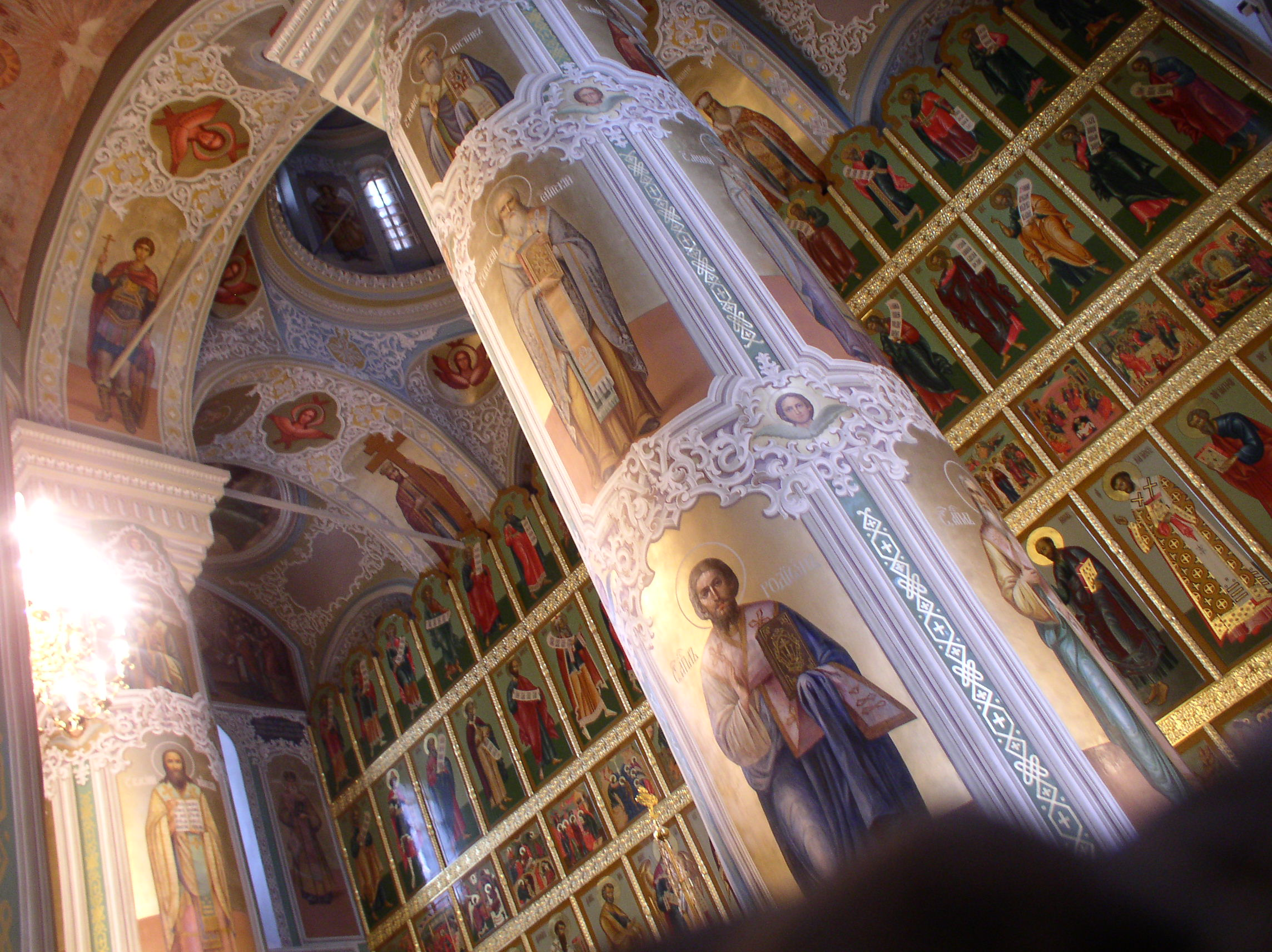 Interior of the Annunciation Cathedral in the Kazan Kremlin